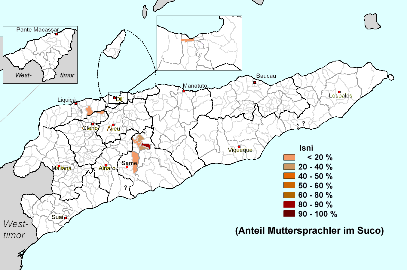 Percentage of people using Isní as mother tongue in sucos of East Timor (Timor-Leste), according census 2010